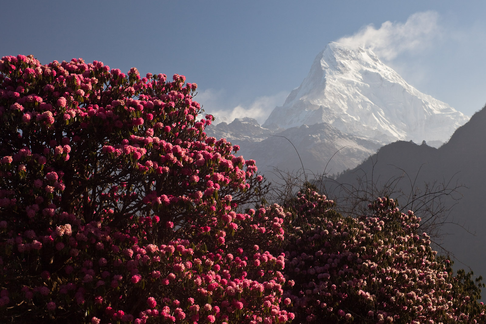 Nilgiri Himal and Rhododendron arboreum var. arboreum